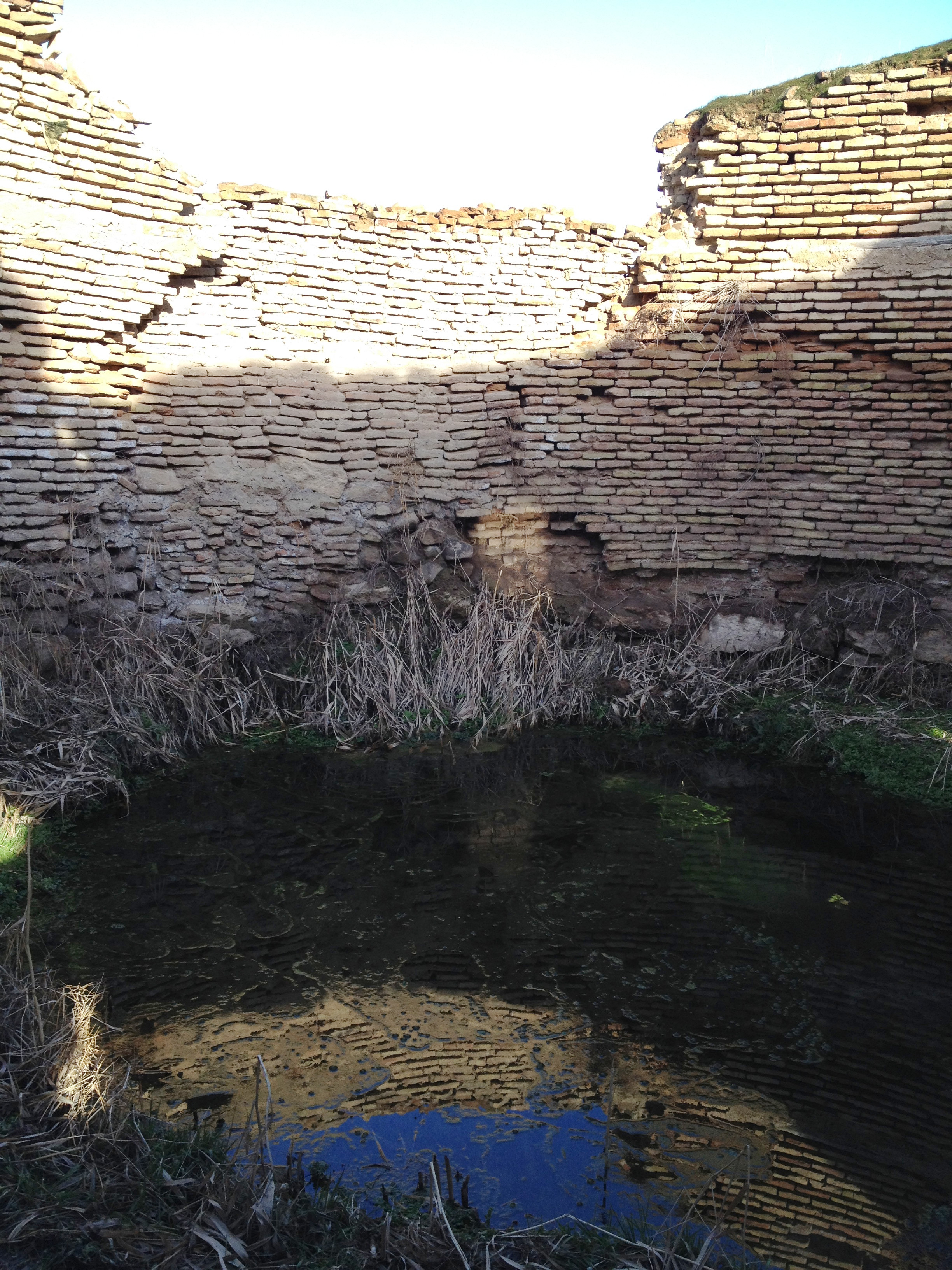 Gumbaz spring, Qaynar village (Akhangaran district) Oʻzbekcha/ўзбекча: Gumbaz bulog`i Qaynar qishlog`ida (Ohangaron tumani)